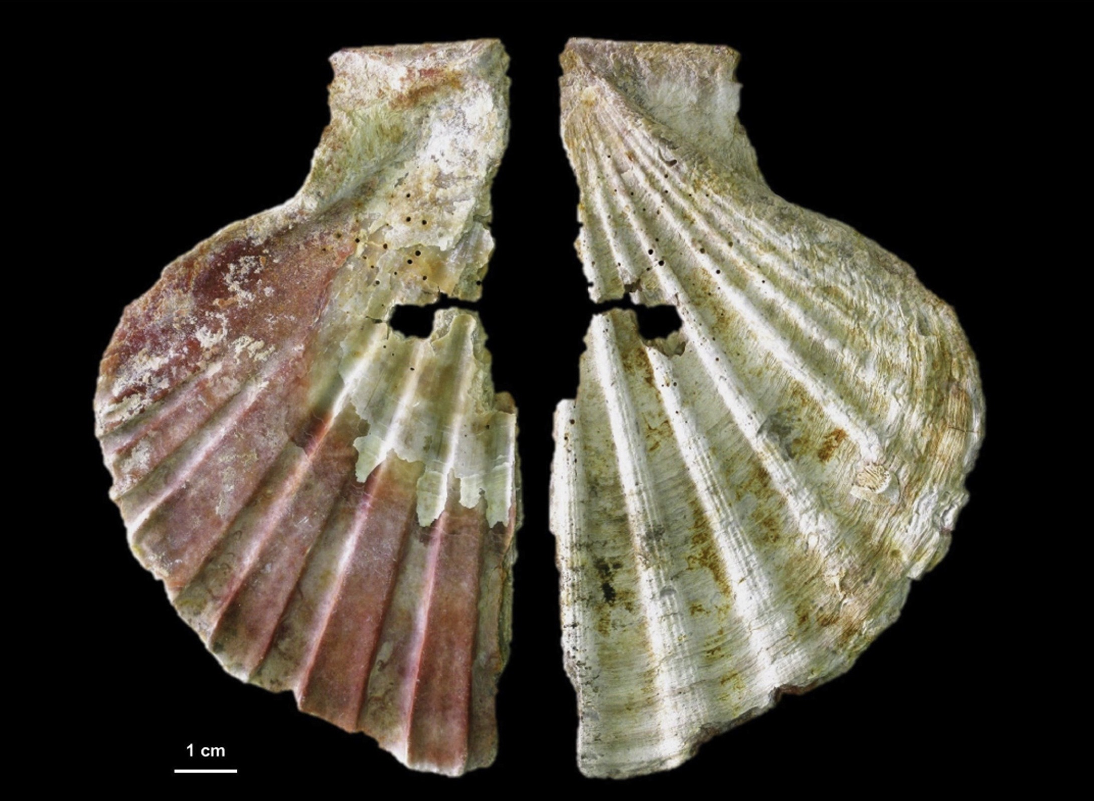 Ornamental shell across the Middle-to-Upper Paleolithic transition in the Mula basin sites. a. Pecten half-valve from Middle Palaeolithic layer I-k of Cueva Antón; the reddish color of the internal side is natural; remnants of an orange colorant made of goethite and hematite are visible in the side that was painted (the external, whitish one)